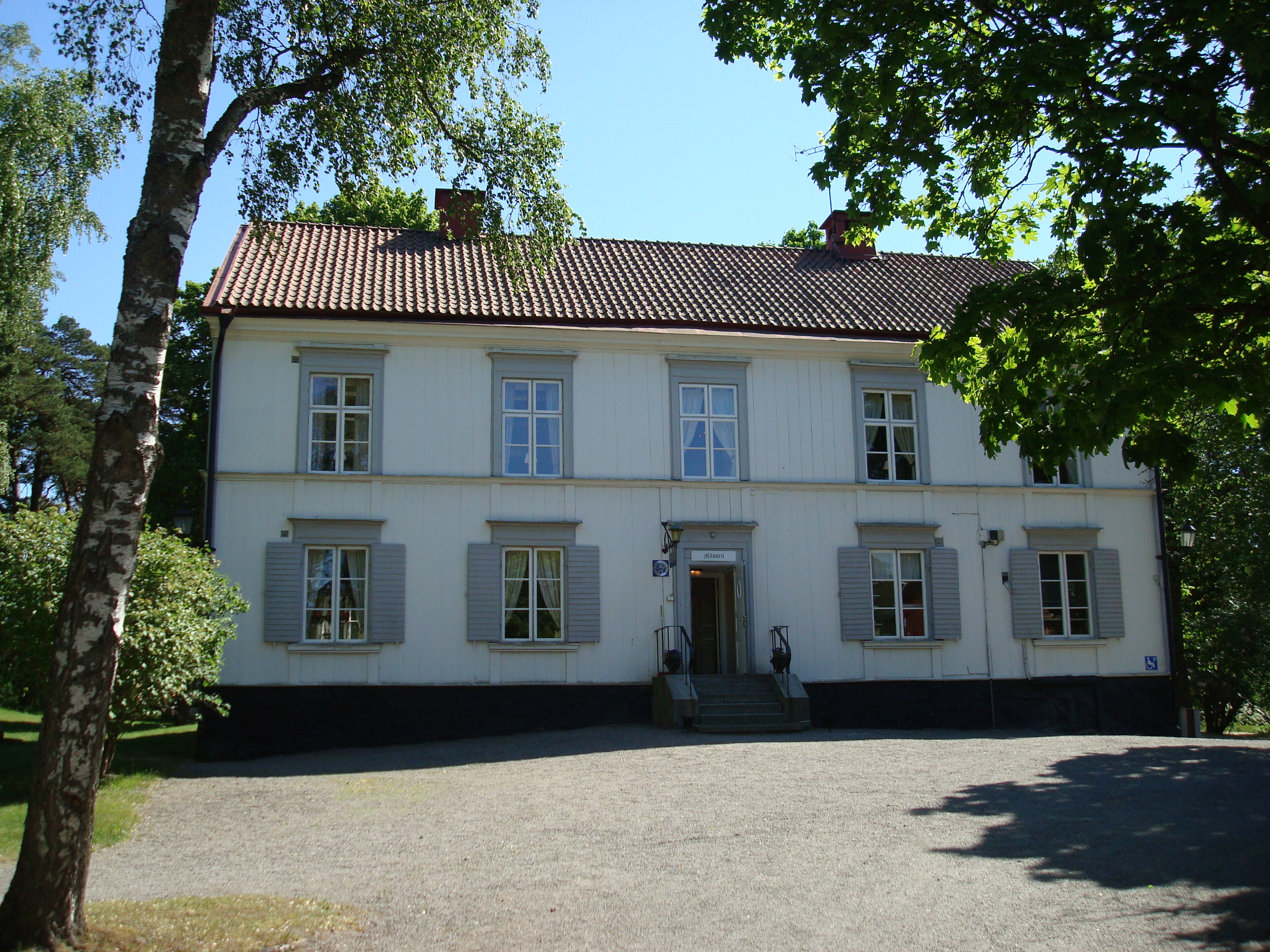 Eklundshof